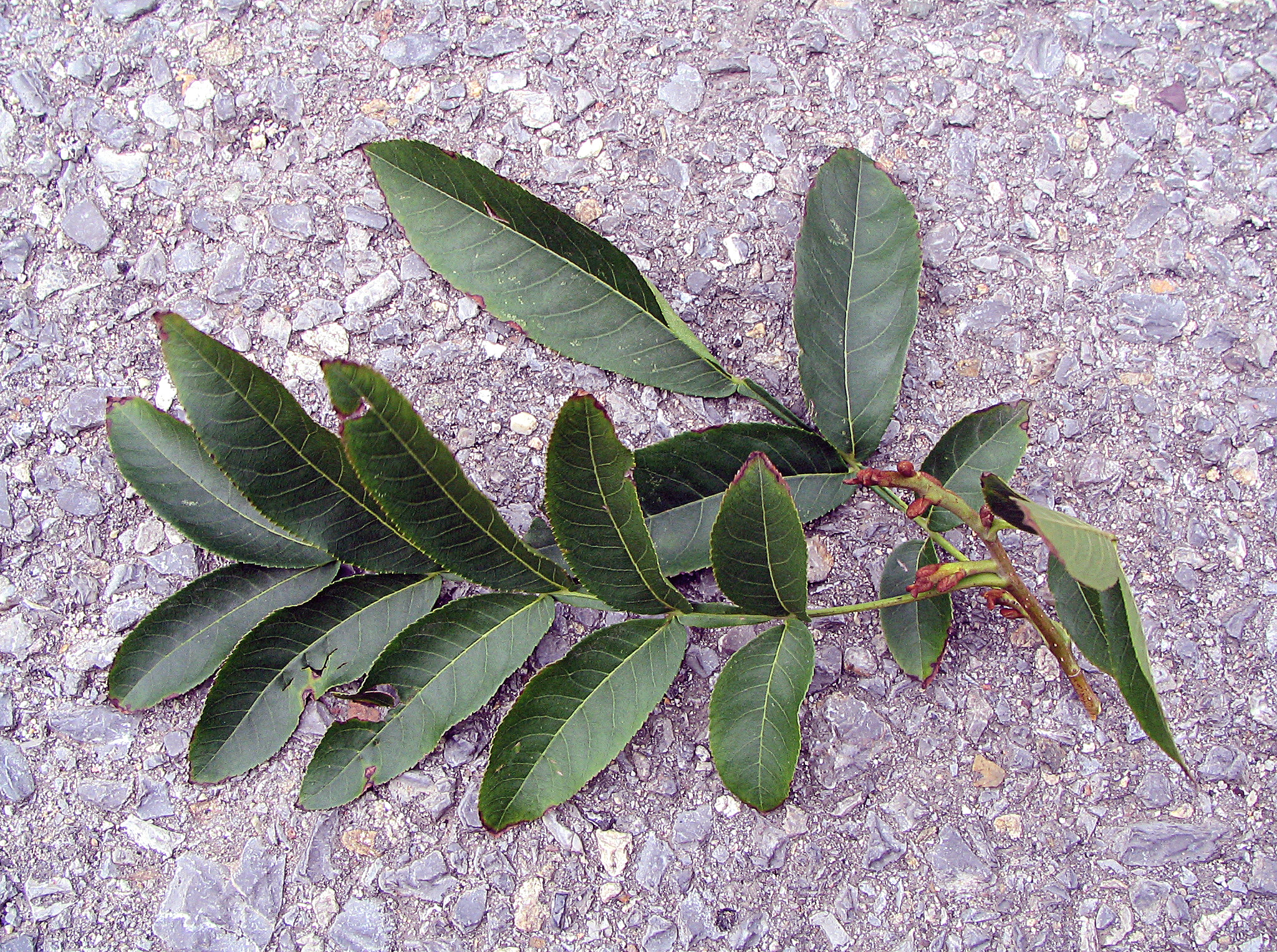 Twig with leaves and buds of Chinese Wingnut (Pterocarya stenoptera) Arboretum of University of Forestry – Sofia (photo: Mihailo Grbic)